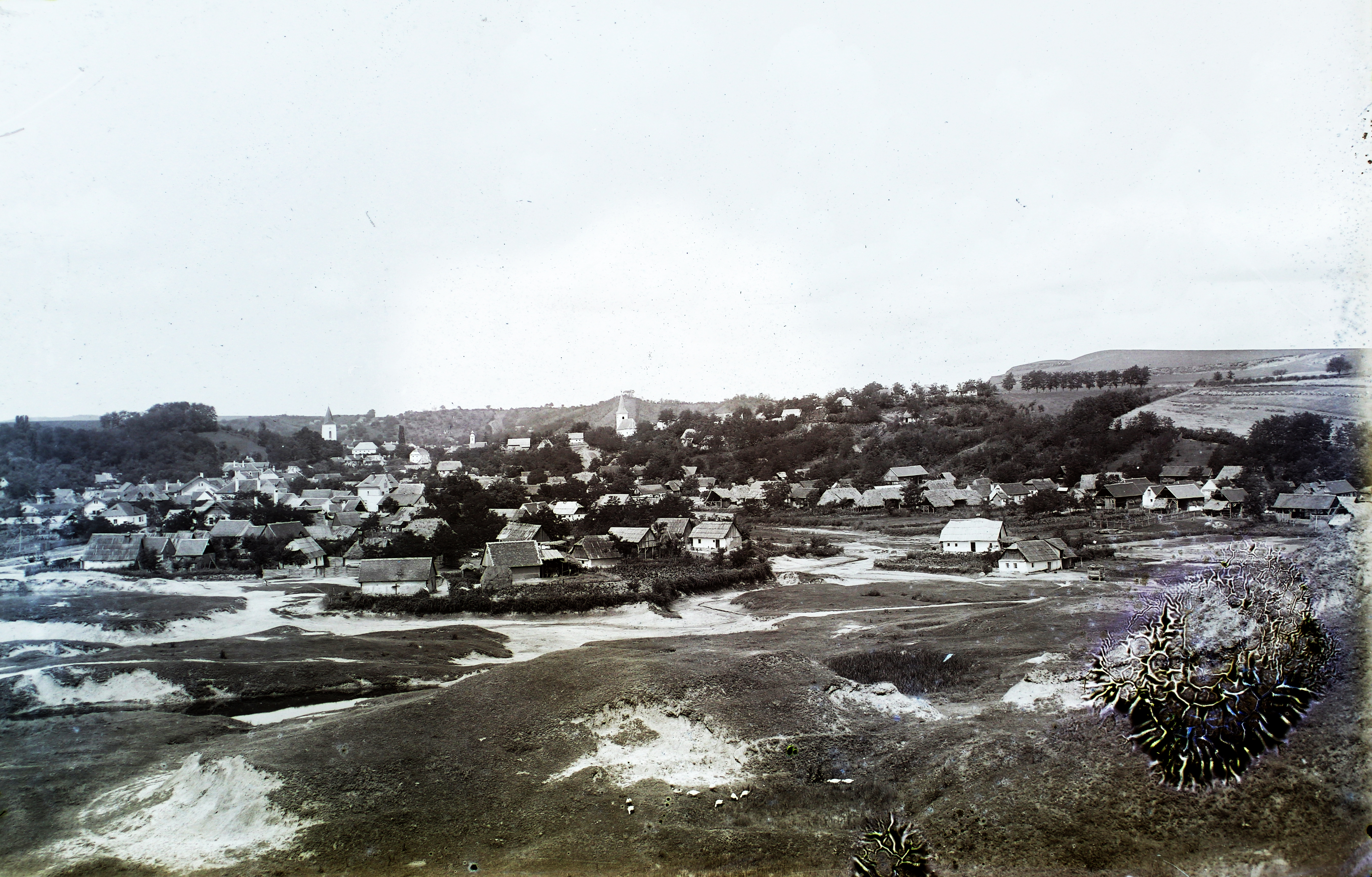 view on Ocna Sibiului/Vízakna, from 1914